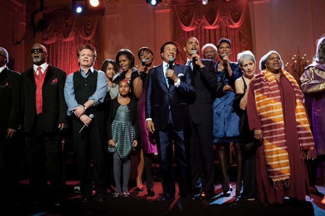 President Barack Obama and the First Family join the performers on stage in the East Room of the White House as they sing "Lift Every Voice and Sing" at the conclusion of “In Performance at the White House: A Celebration of Music from the Civil Rights Movement, ” Feb. 9, 2010. (Official White House Photo by Pete Souza)